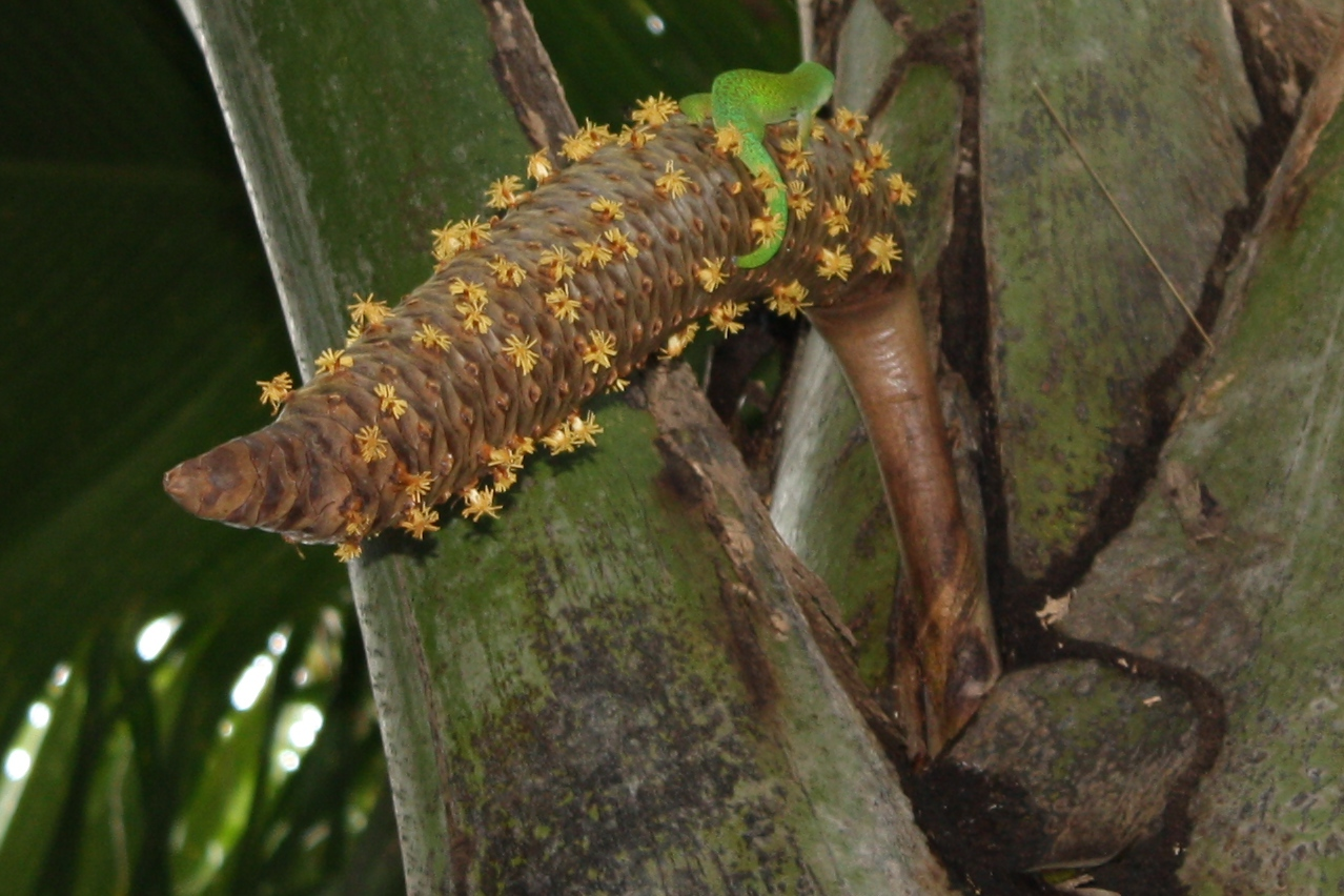 male inflorescence of Coco de Mer (Lodoicea maldivica)